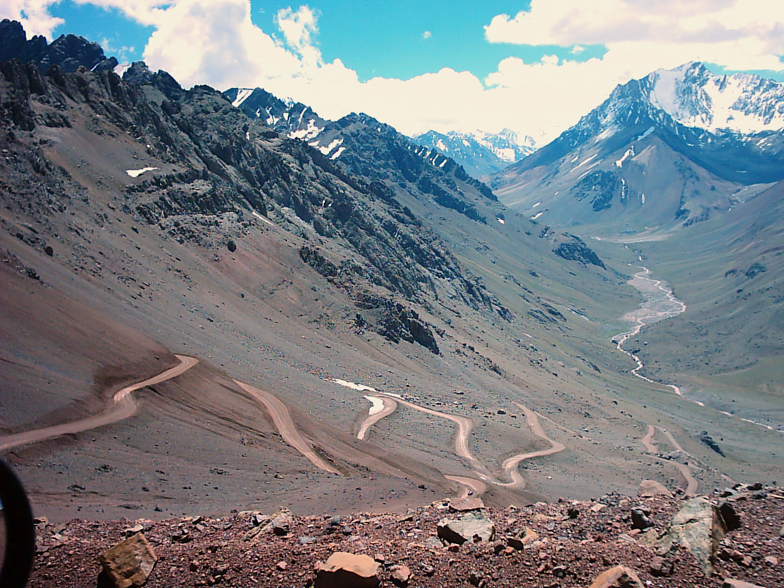 I took this picture on February 16th, 2006.